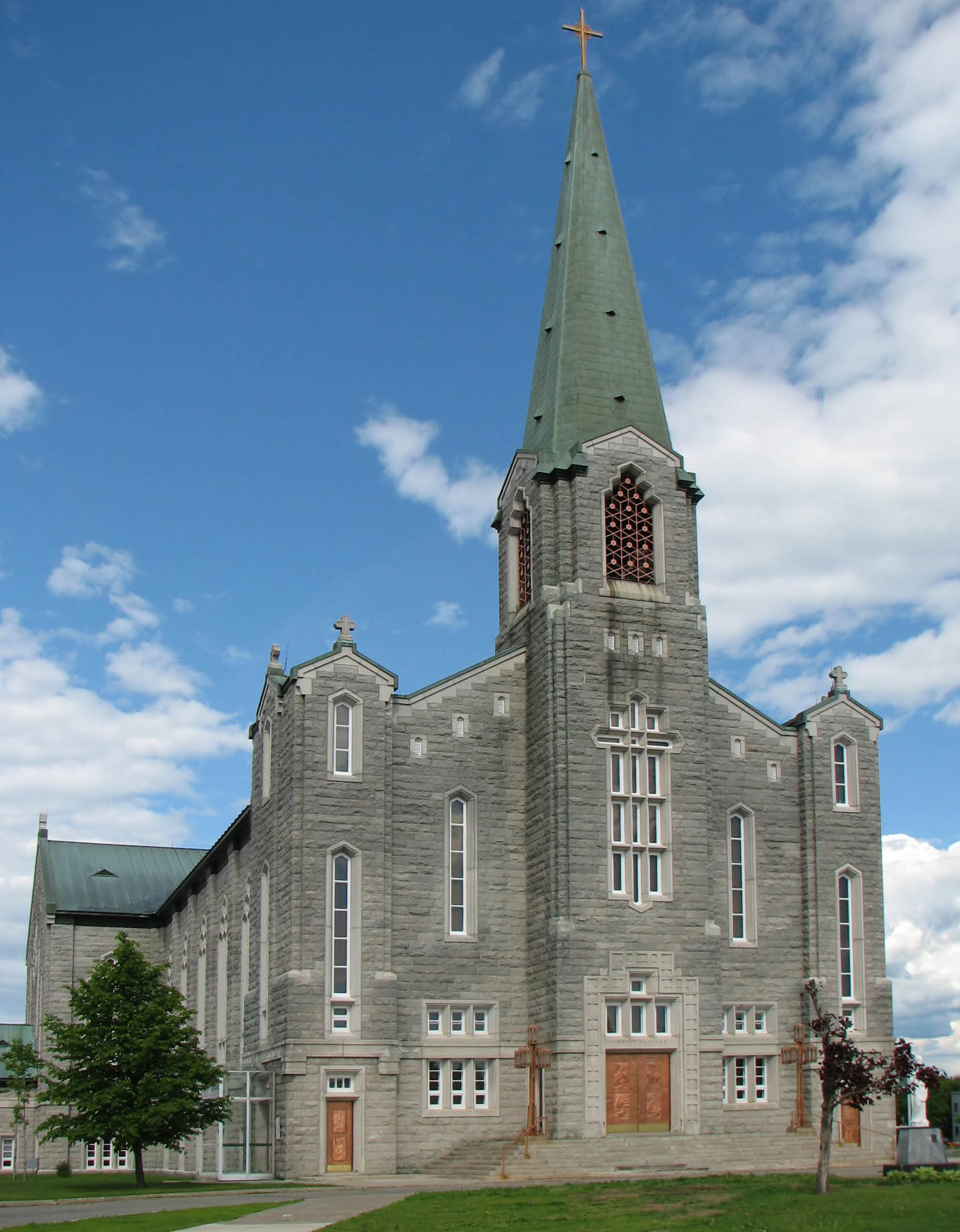 Saint-Thomas church (1949-54), Montmagny, province of Quebec, Canada